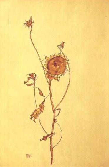 Dry Sunflower